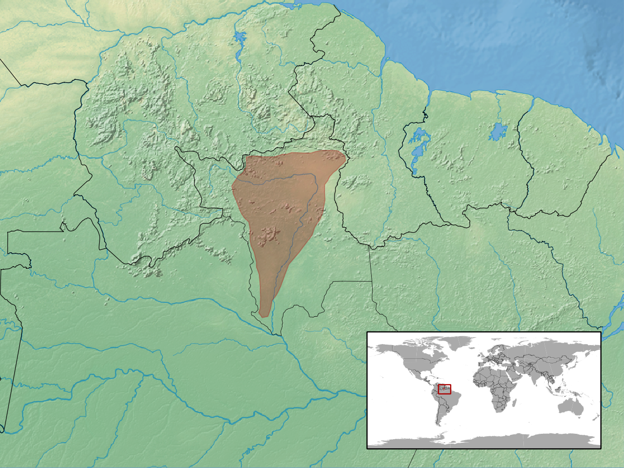 geographic distribution of Mabuya carvalhoi (IUCN) syn. Panopa carvalhoi (RDB)